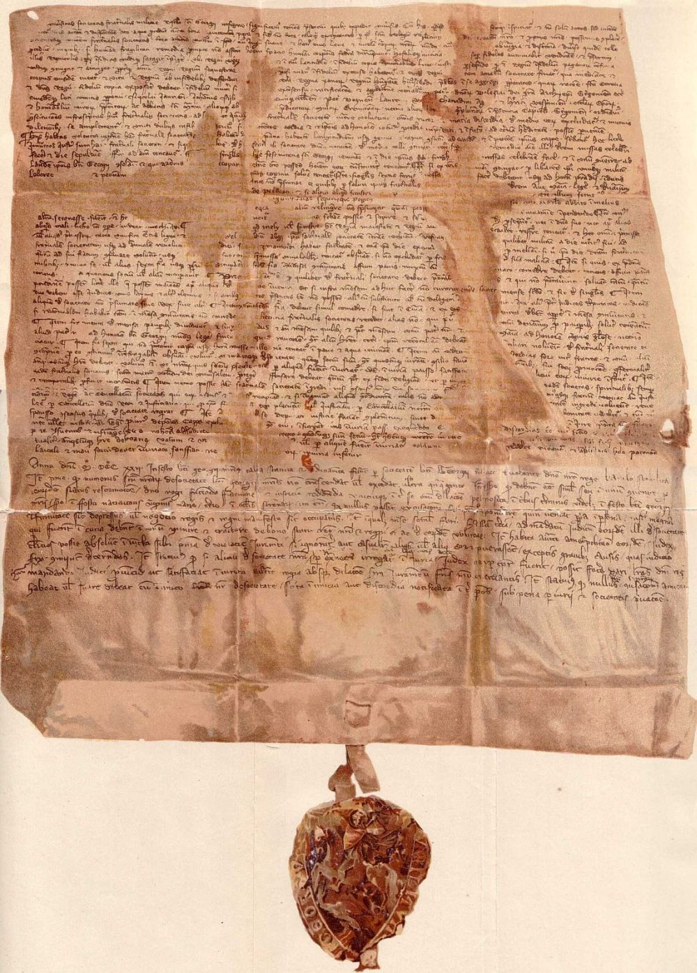 Original Medieval document from the Foundation of the hungarian Order of Saint George from 1326.